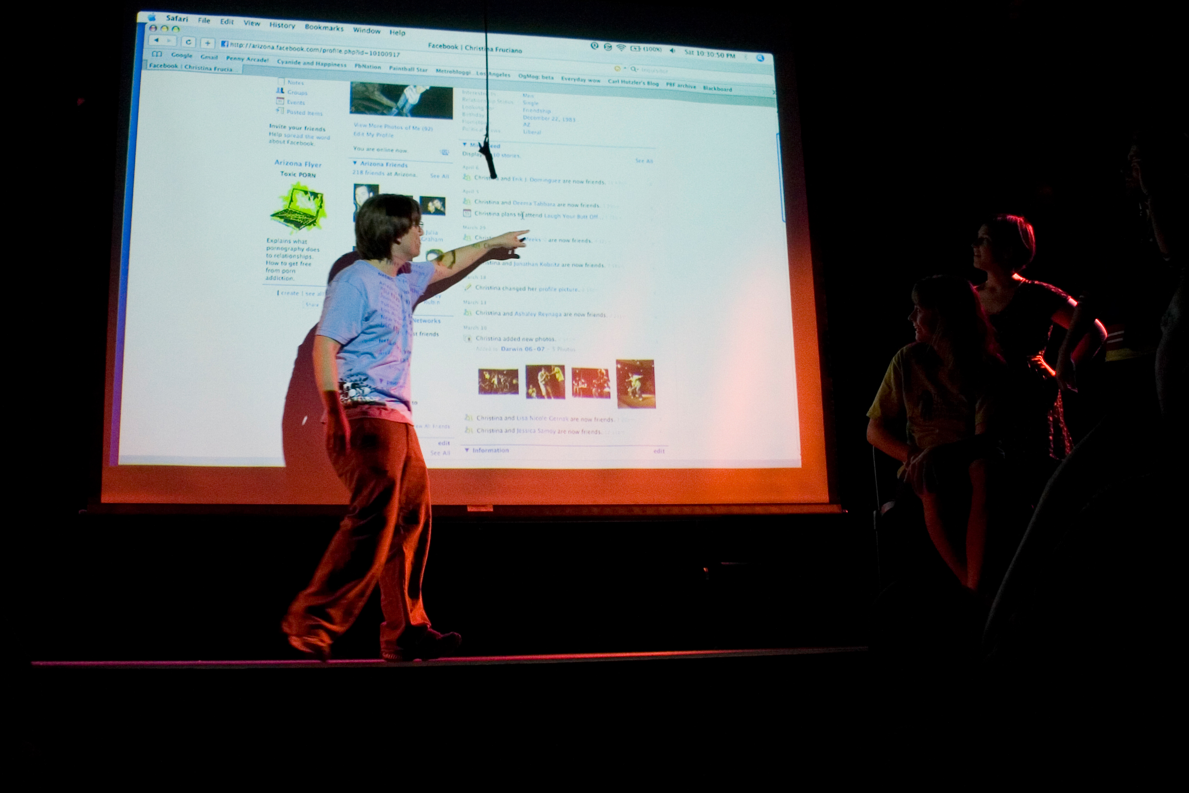 In The Facebook Show Second Nature projects the Facebook profile of an audience volunteer